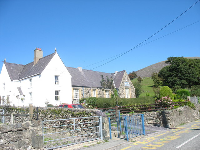 Ysgol Baladeulyn School, Nantlle This is a community school on the eastern outskirts of Nantlle. It caters for around 33 pupils aged 3 to 11. The white painted near section is the old headmaster's house.